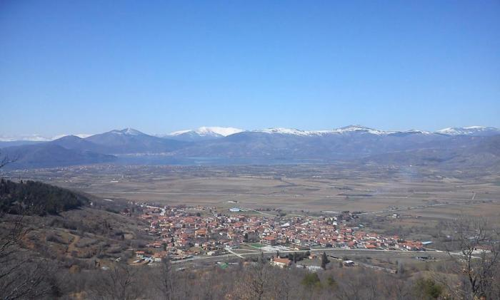 View of the town of Korisos. In the background snowy Verno and in the middle, lake Orestiada.